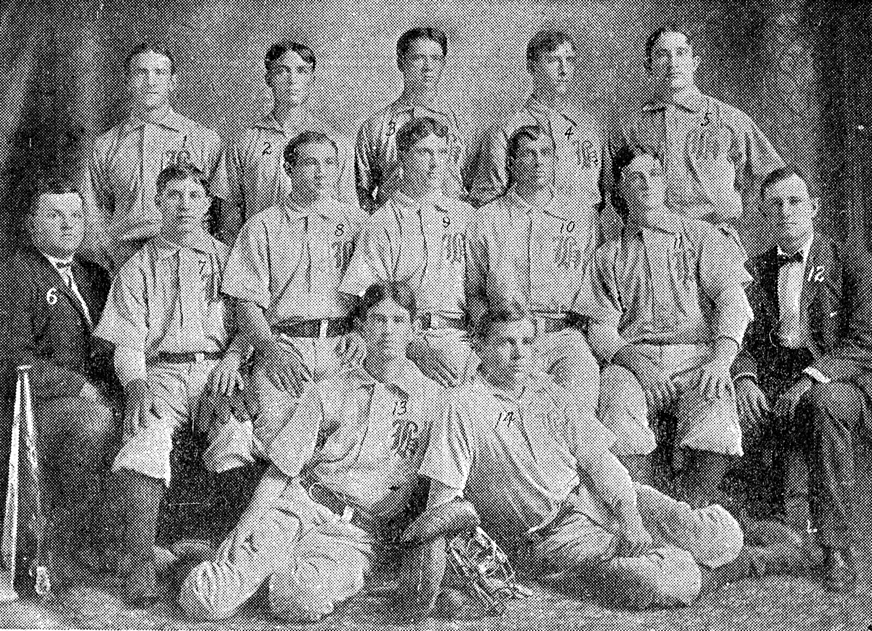 The 1905 Houston Buffaloes team. As notated by numbers, the persons in this photograph are as follows: 1. Joseph Briskey; 2. Bill Sorrels; 3. Newt Hunter; 4. Ed Karger; 5. Bob Edmundson; 6. Steubenrach (team mascot); 7. Joseph Mowrey; 8. Art Weber; 9. Wade Moore; 10. Forrest Crawford; 11. Frank Truesdale; 12. Claude Rielly (Manager/Owner); 13. Clarence Nelson; 14. August Paulig. The team won the South Texas League that season.